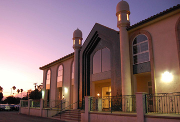 Baitul Hameed Mosque at sunset